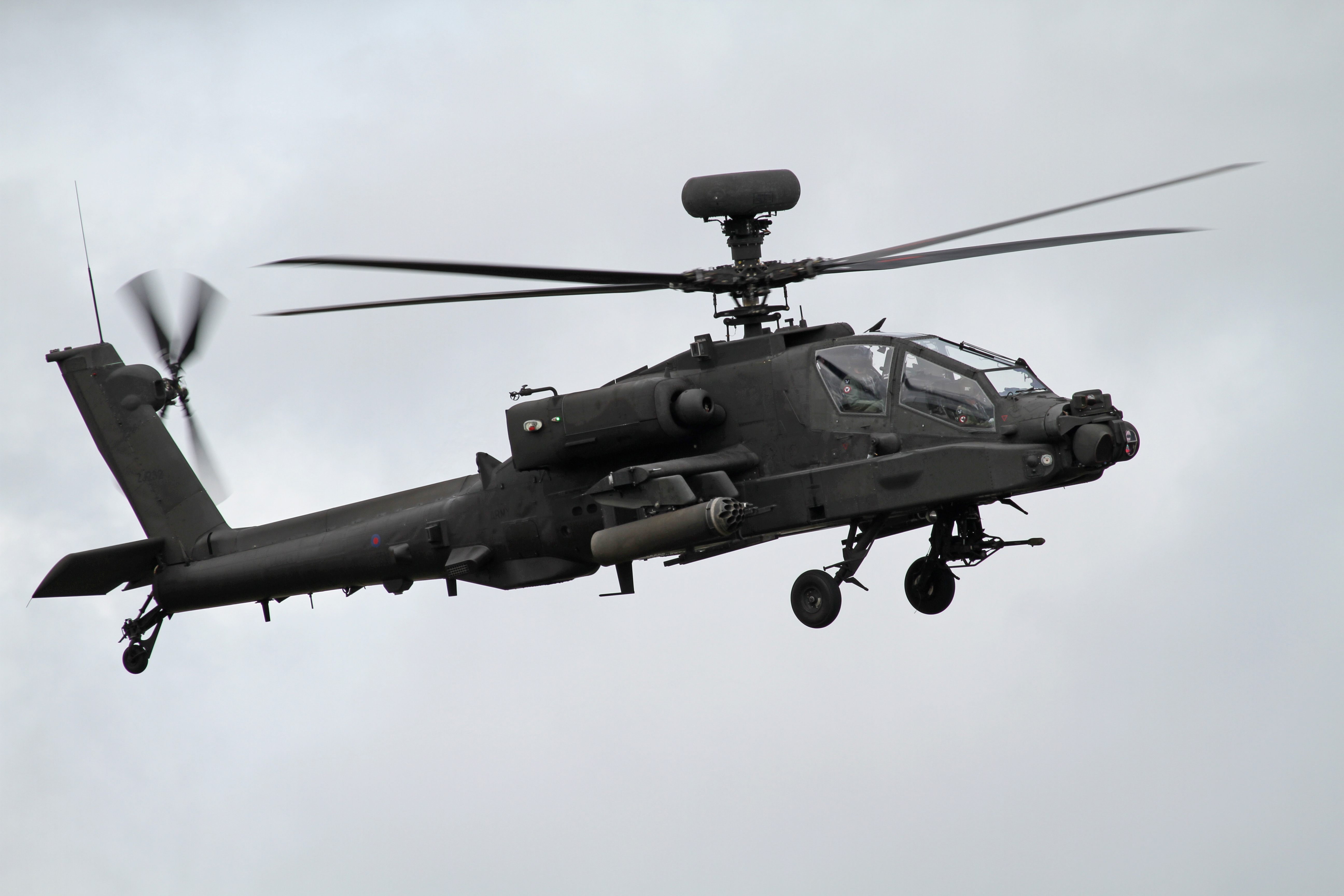 AgustaWestland Apache AH1 5